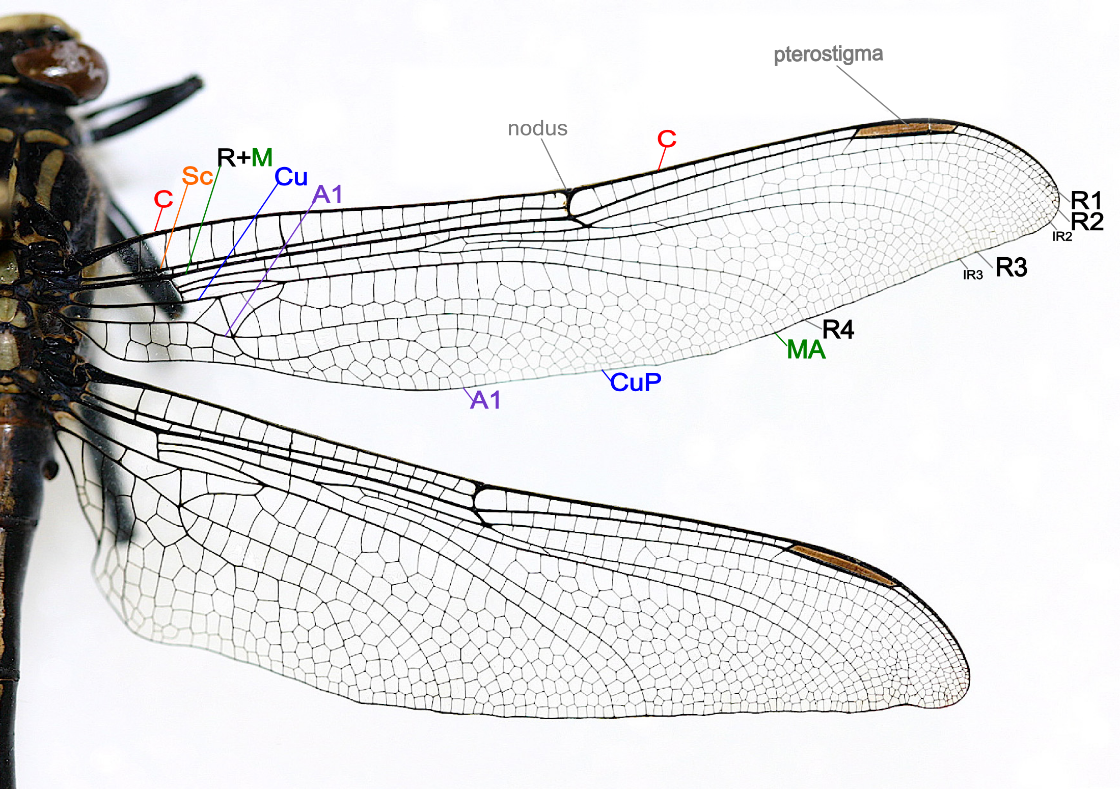 Odonata - Gomphidae wing structure with venation.